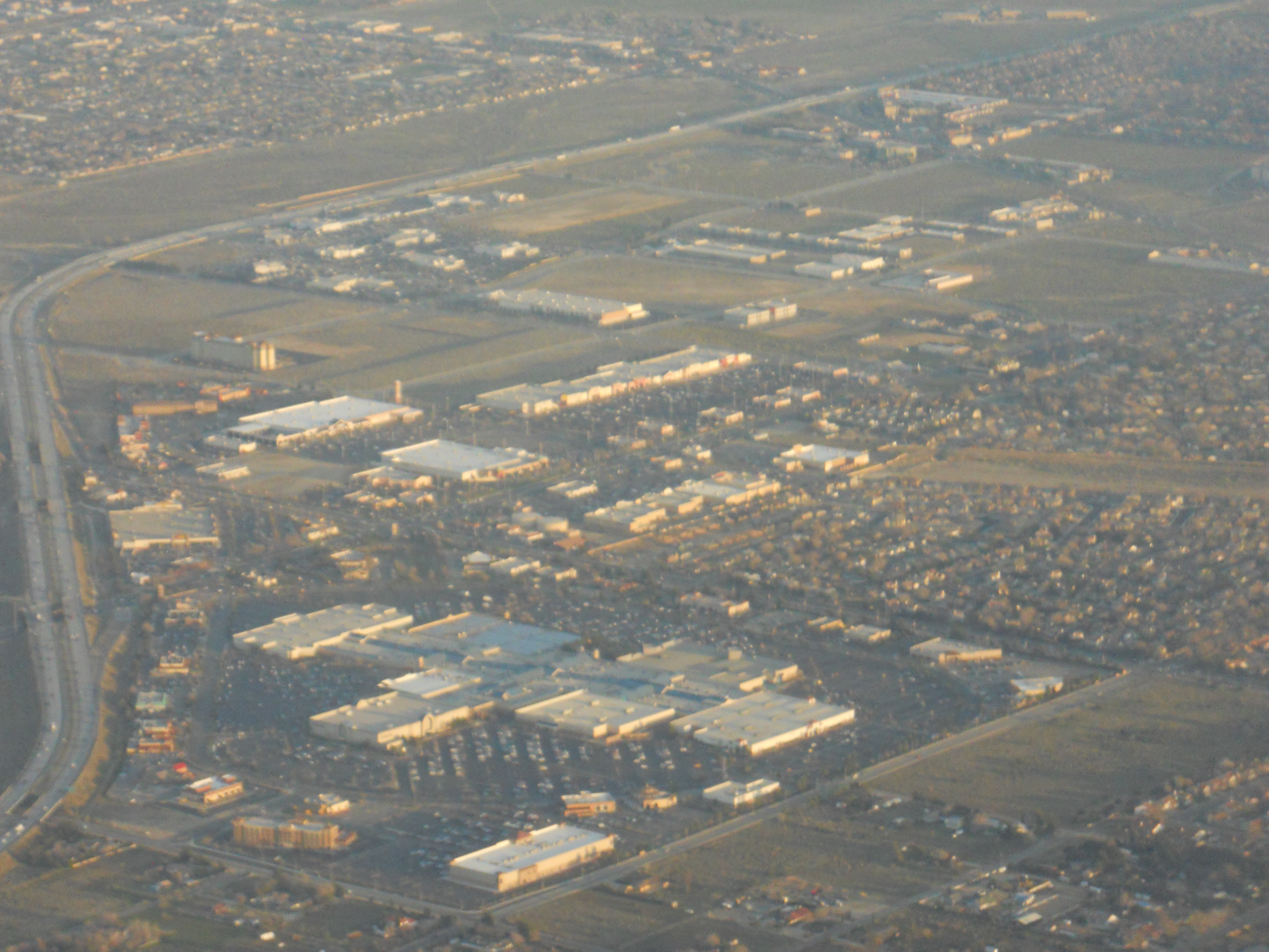 A photo I took of the A.V. Mall from a small plane.